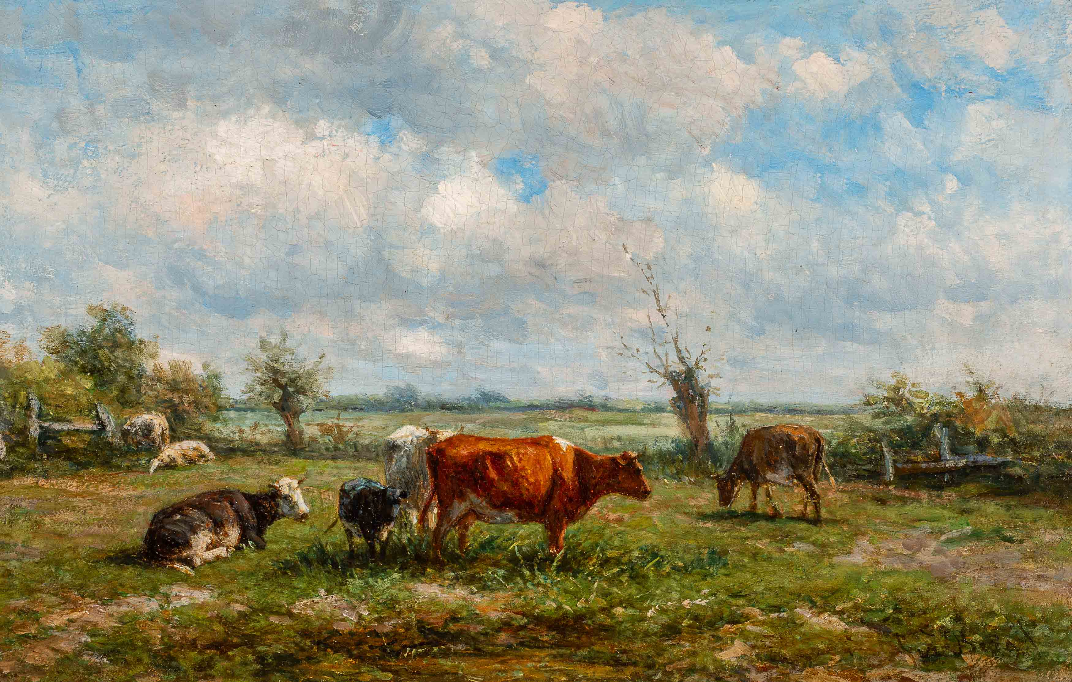 Cattle in a polder landscape